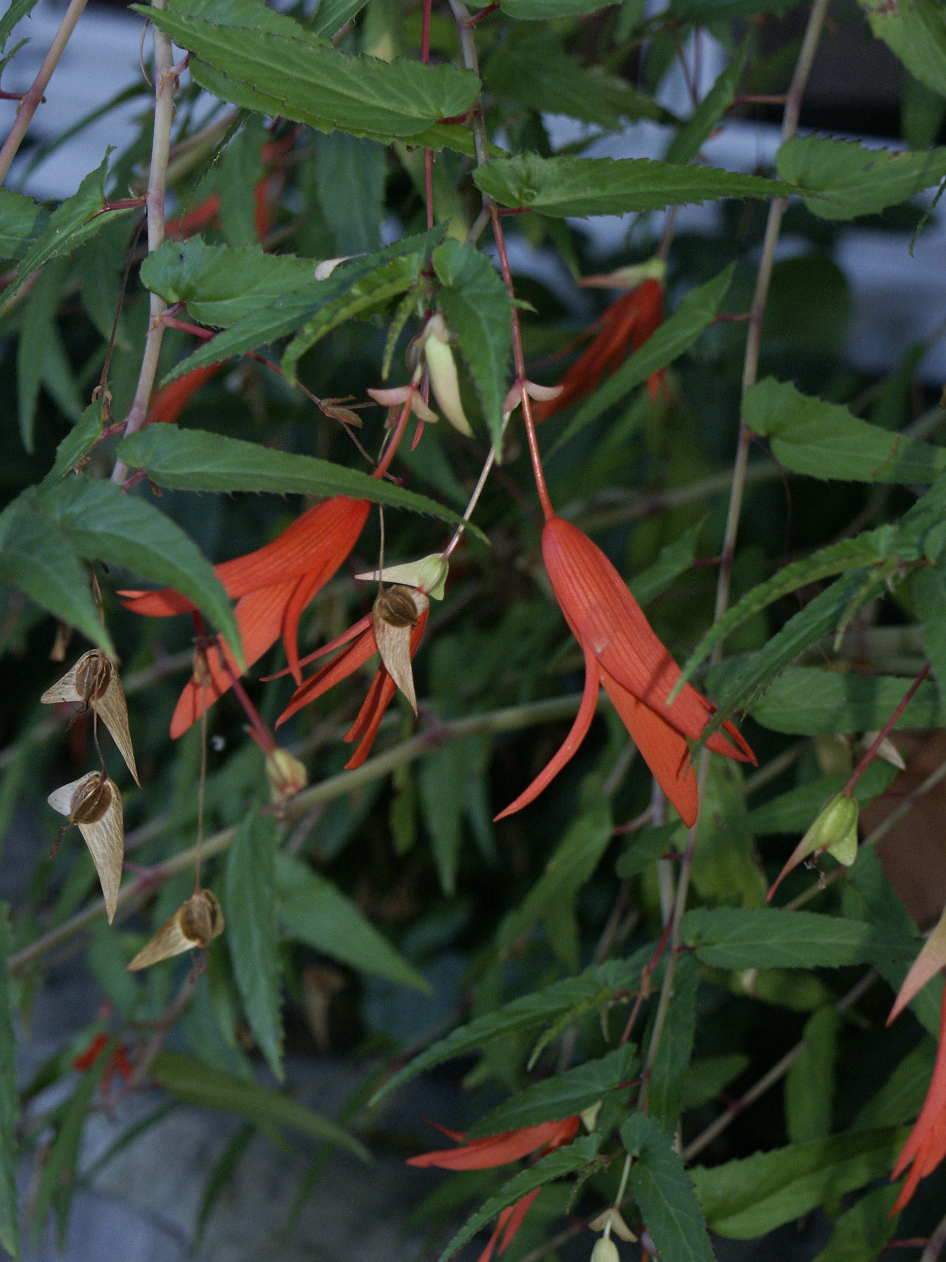 Elisabeth C. Miller Botanic Garden, Seattle, WA